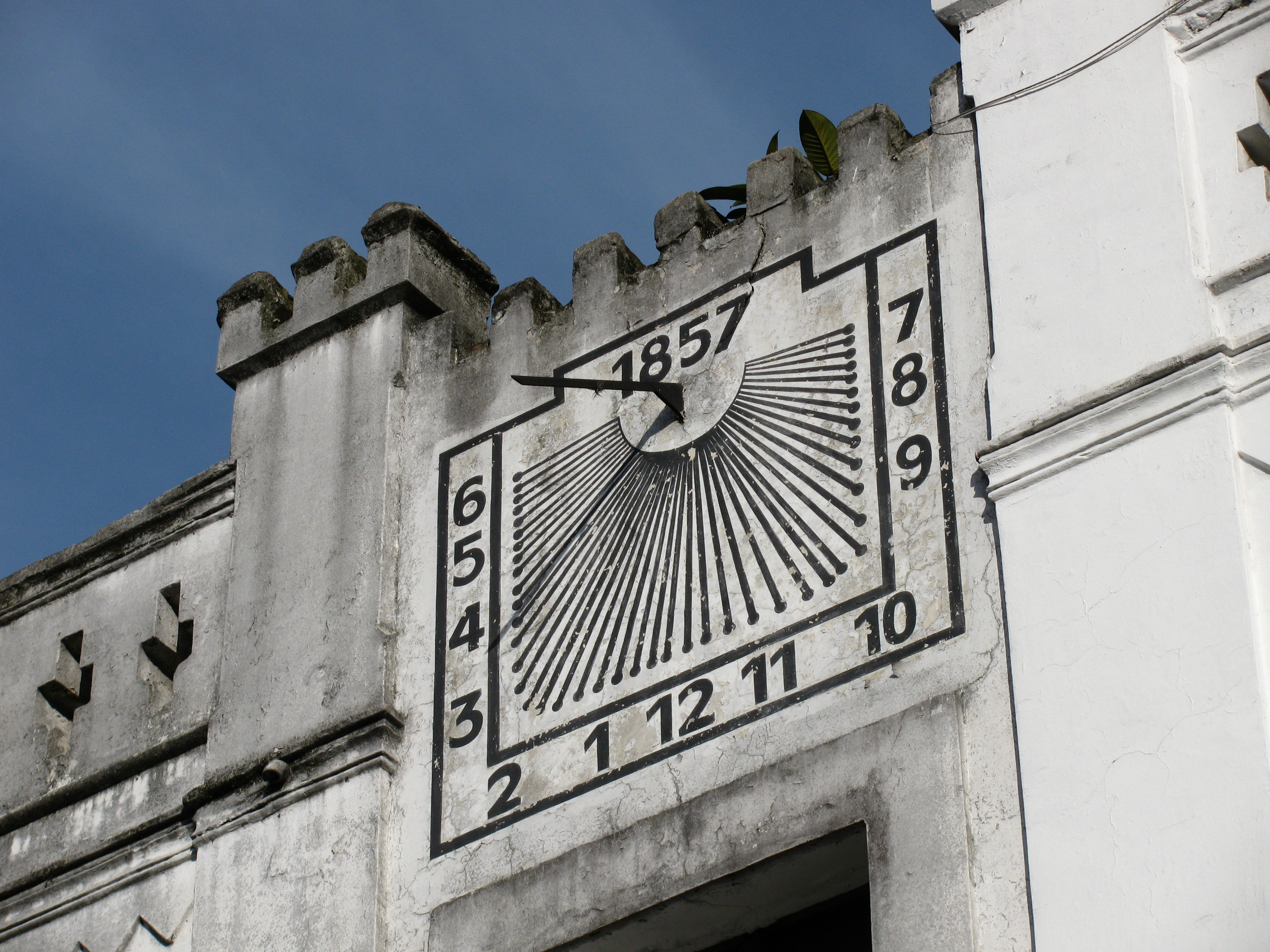 Gnomon on a wall of a building facing Praça Tiradentes, Curitiba, Brazil